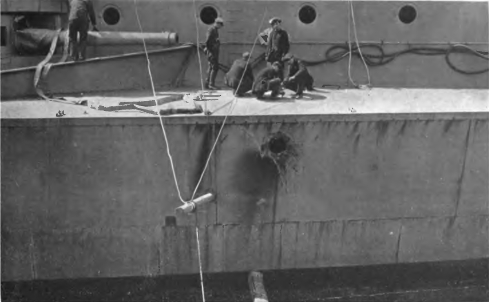 Caption : ""Warspite" - armour plate pierced by shell that exploded in boys' mess deck". This shows battle damage sustained at the Battle of Jutland. A Mk XII 6-inch gun mounted in a casemate is seen at top left.